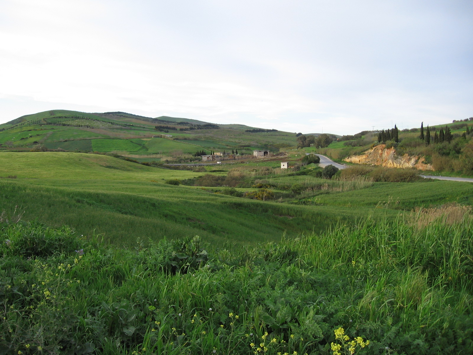 Northern Tunisia between Ghar El Melh and Raf Raf